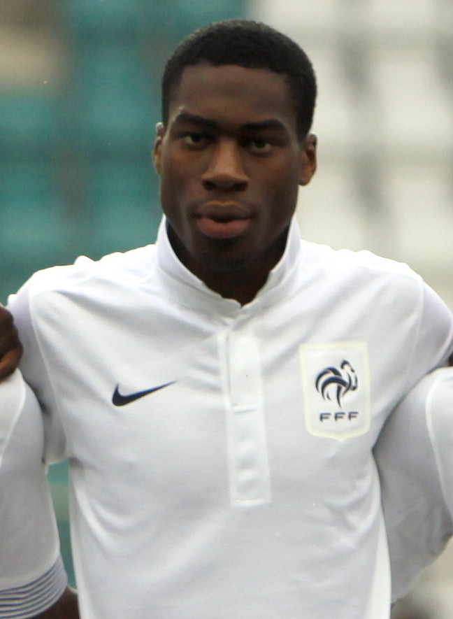 U-19 Spain vs France.